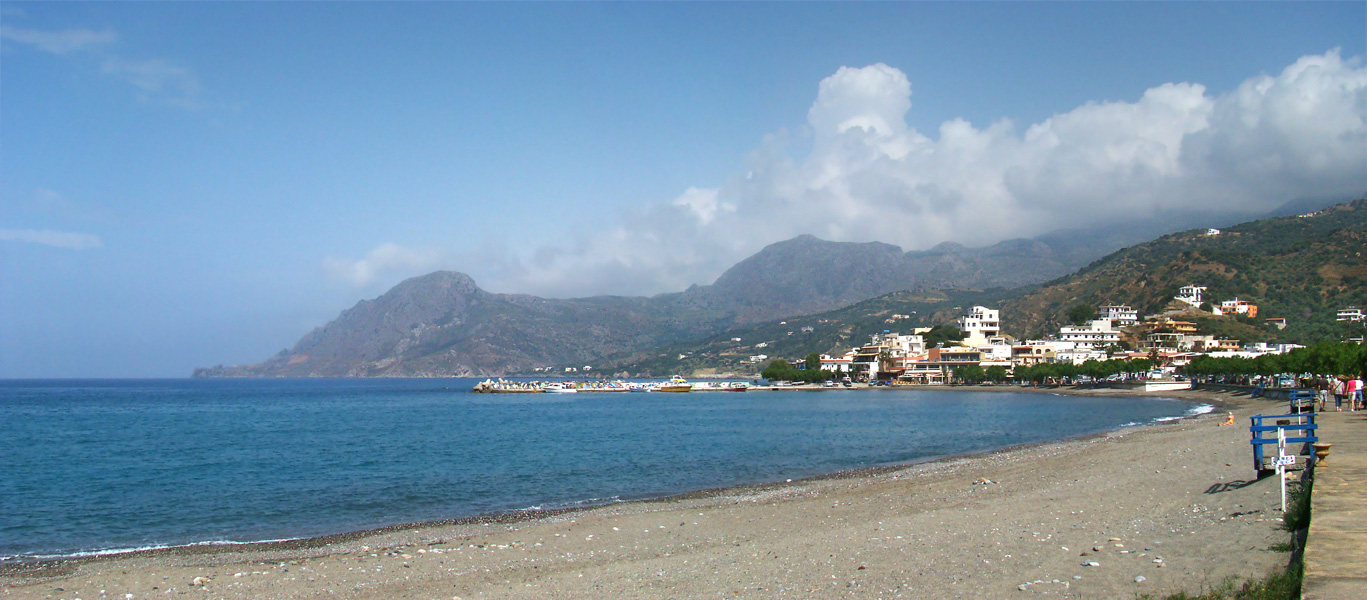 Plakias, Crete, Greece.